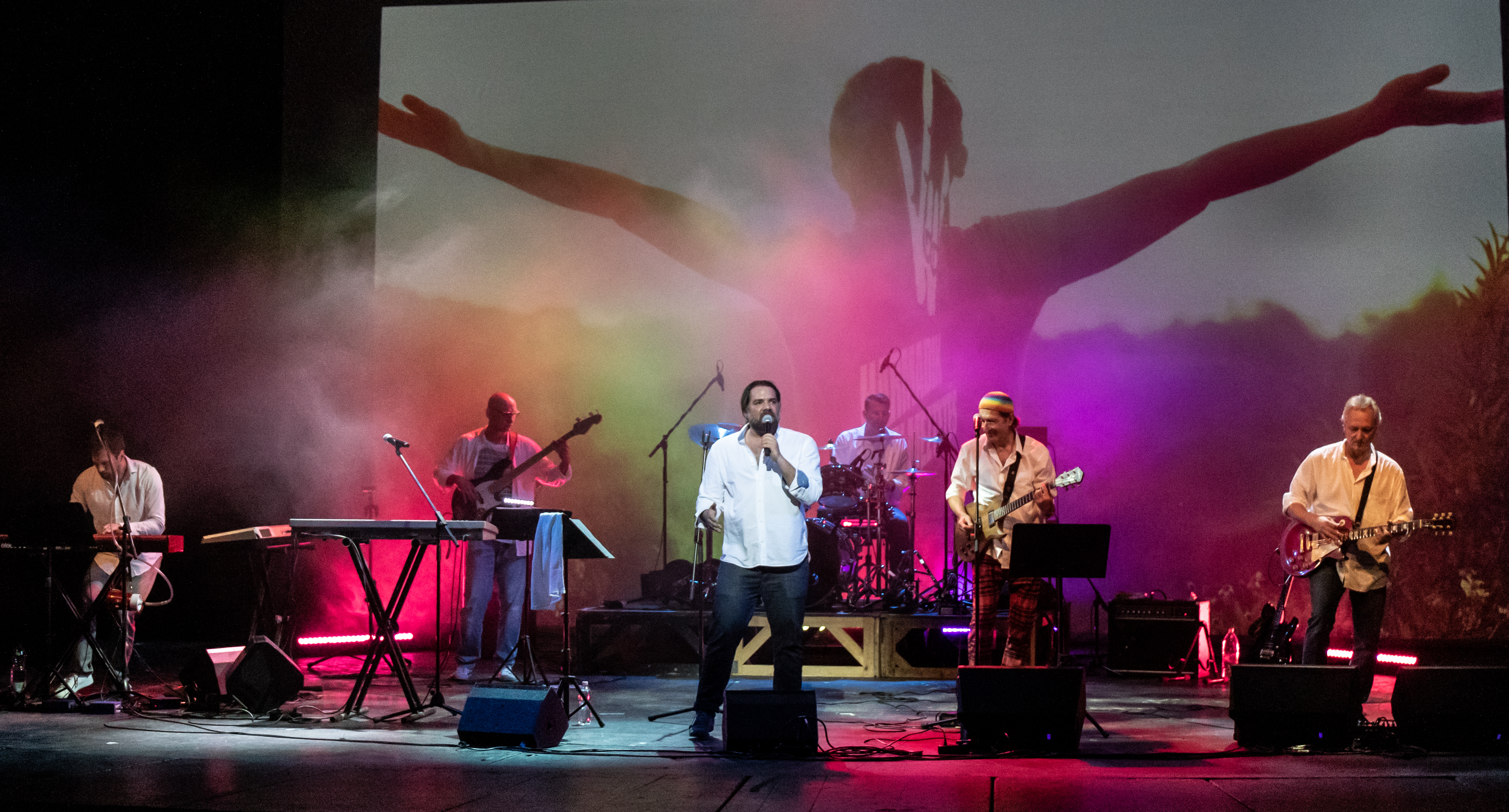 10 years of the Harmadik Figyelmeztetés! gala concert - Harmadik Figyelmeztetés (Third Warning) actor band in the Magyar Theatre, 21 May 2019